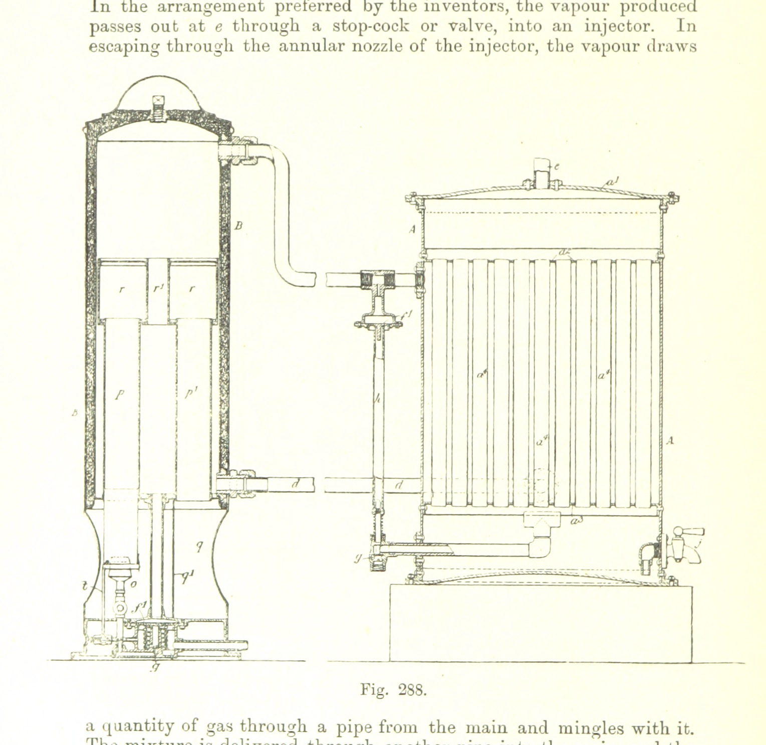 Image taken from: Title: "Petroleum: a treatise on the geographical distribution and geological occurrence of petroleum and natural gas ... By B. Redwood, assisted by G. T. Holloway, and other contributors ... With maps, etc" Author: REDWOOD, Boverton - Sir, Bart Contributor: HOLLOWAY, George Thomas. Shelfmark: "British Library HMNTS 07106.ee.33." Volume: 02 Page: 306 Place of Publishing: London Date of Publishing: 1896 Publisher: Griffin & Co. Issuance: monographic Identifier: 003057425 Explore: Find this item in the British Library catalogue, 'Explore'. Open the page in the British Library's itemViewer (page image 306) Download the PDF for this book Image found on book scan 306 (NB not a pagenumber)Download the OCR-derived text for this volume: (plain text) or (json) Click here to see all the illustrations in this book and click here to browse other illustrations published in books in the same year. Order a higher quality version from here.